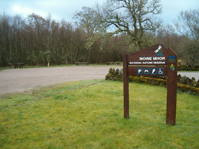 Moine Mhor National Nature Reserve.